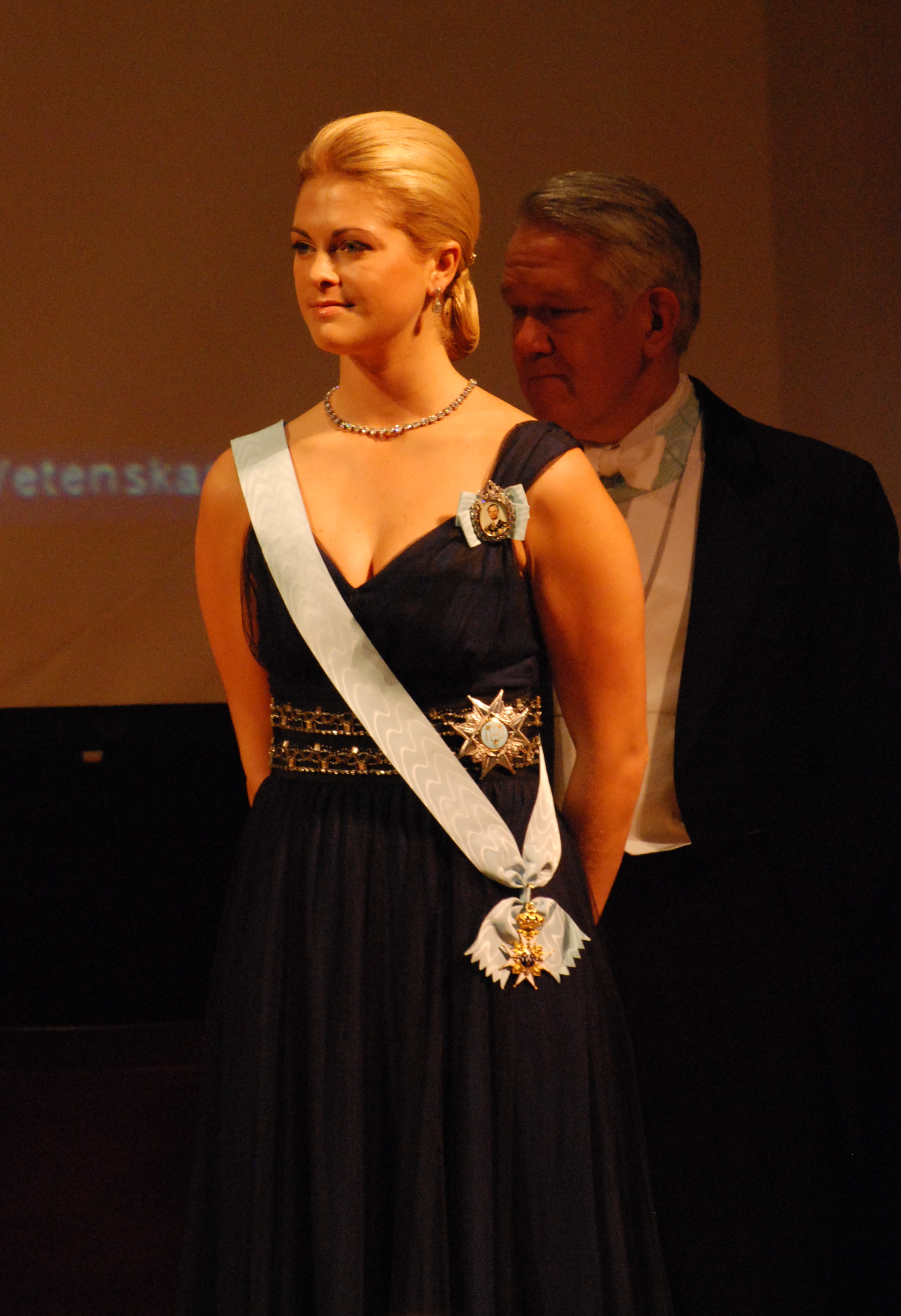 Ceremonial Meeting of the Royal Swedish Academy of Sciences: award ceremony of the Göran Gustafsson prize 2010: Princess Madeleine